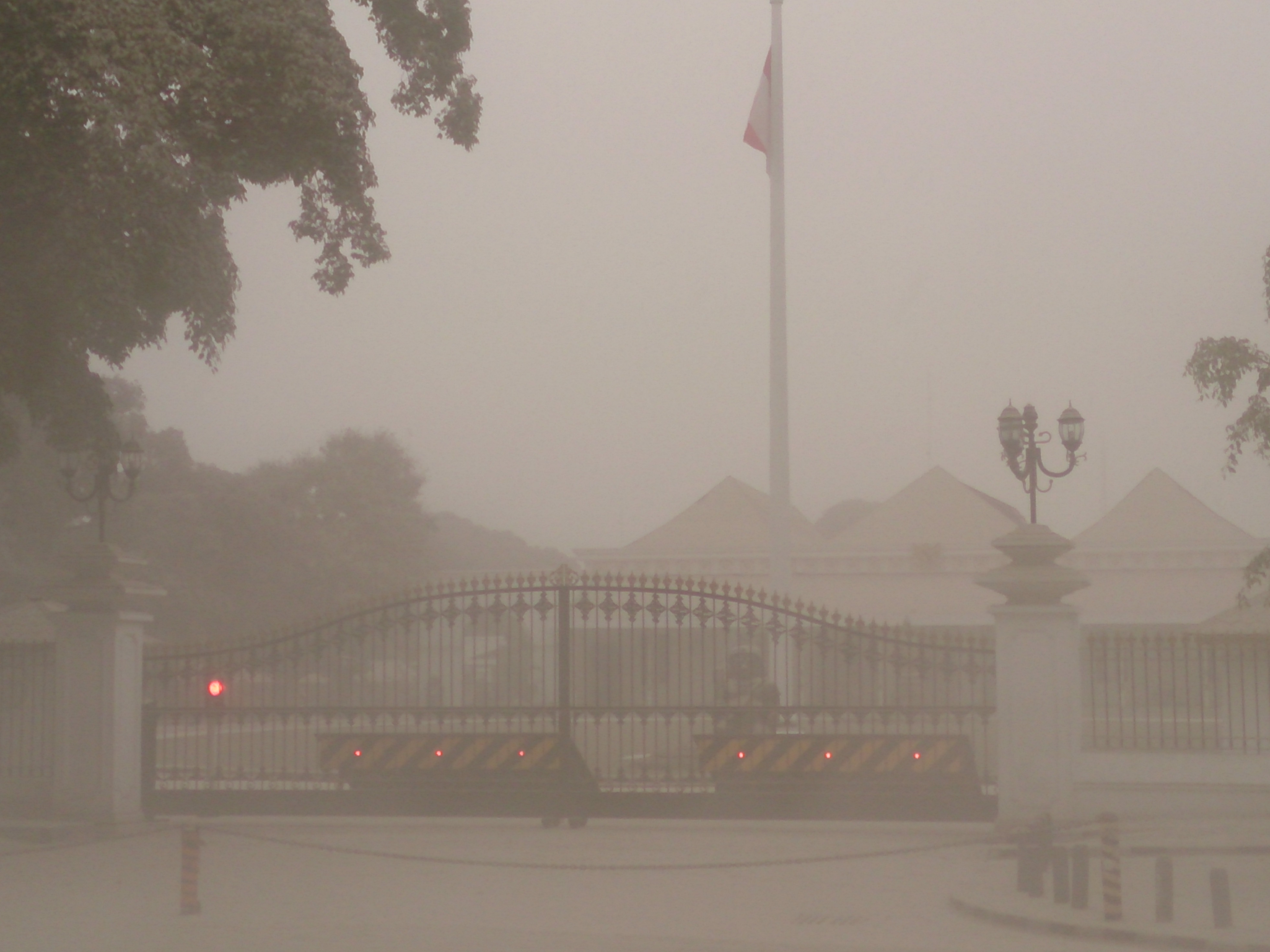 Right in front of Yogyakarta Fortress Museum Vrederburg, Gedung Agung one of seven presidential palace covered in ash.